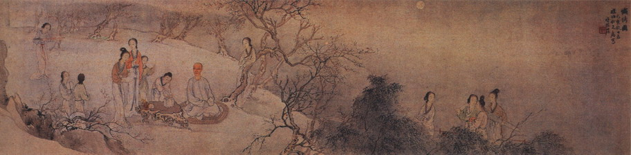 Yao Xie and his Wives (姚燮忏绮图). Handscroll, ink and color on paper (卷纸本设色). 31 x 128.9 cm. Palace Museum, Beijing (北京故宫博物院藏). Yao Xie (1805-1864) was a poet during the late Qing Dynasty. See Barnhart, R. M. et al. (1997). Three thousand years of Chinese painting. New Haven, Yale University Press. ISBN 0-300-07013-6 page 294.